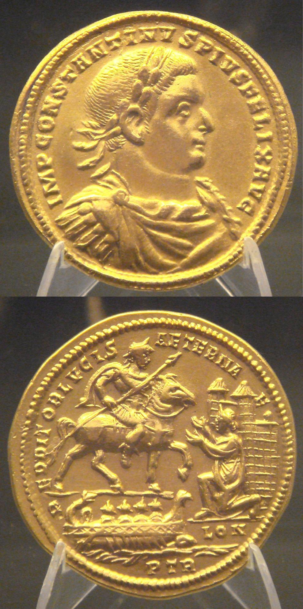 Below: Roman emperor Constantius I capturing London after defeating Allectus, illustrated on a medal/coin from the Beaurains hoard). Above: Obverse of gold medal/coin issued by Constantine the Great.